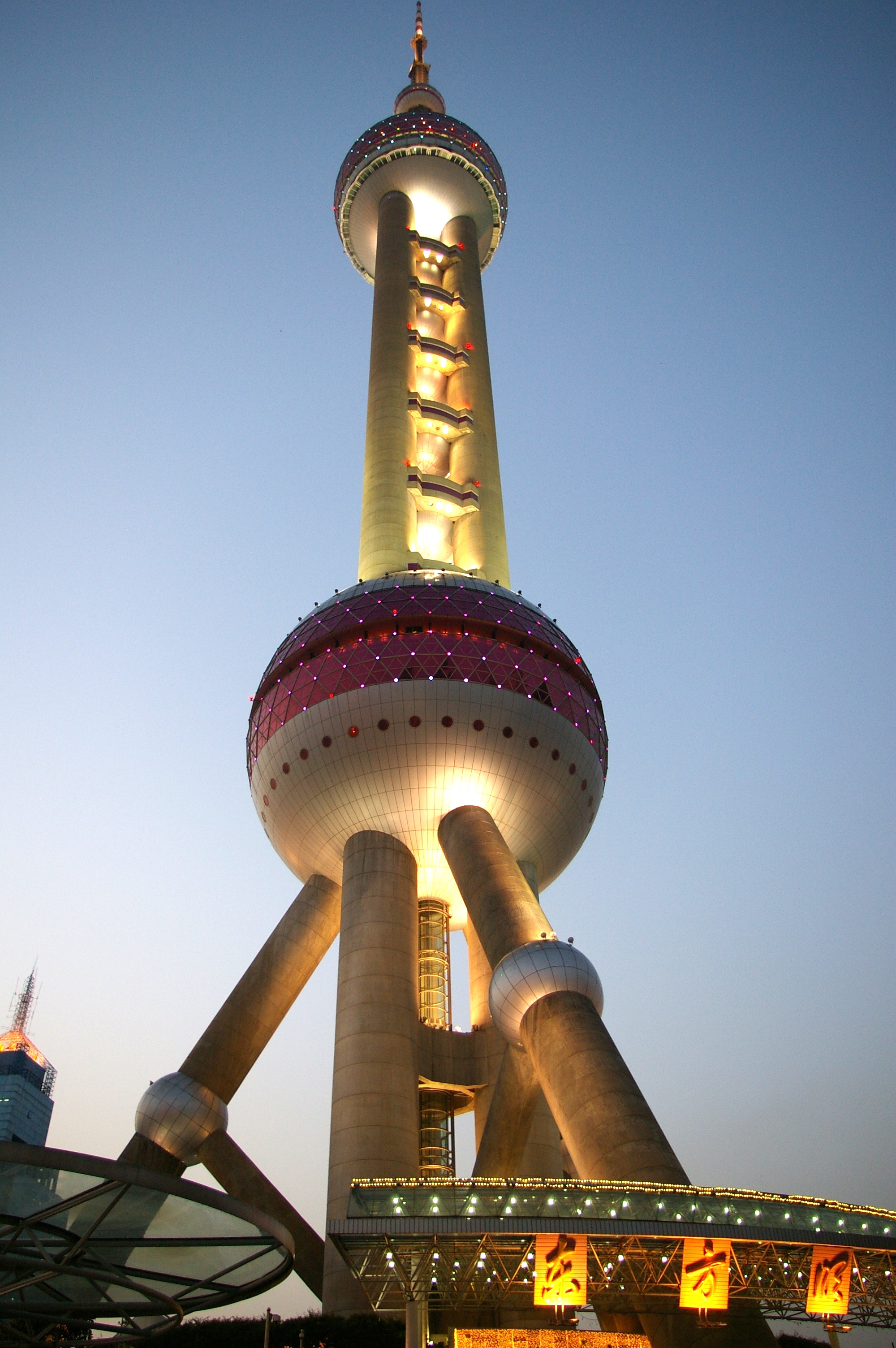 Oriental Pearl Tower in Shanghai